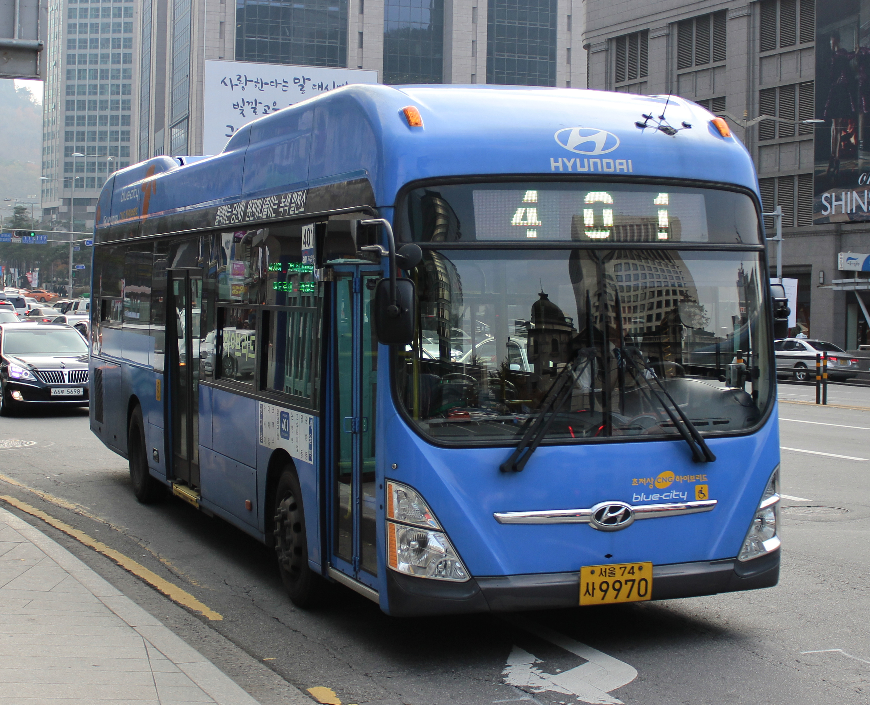 Hyundai BlueCity Motorcoach